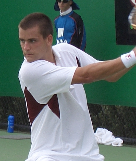 Mikhail Youzhny at the 2006 Australian Open.